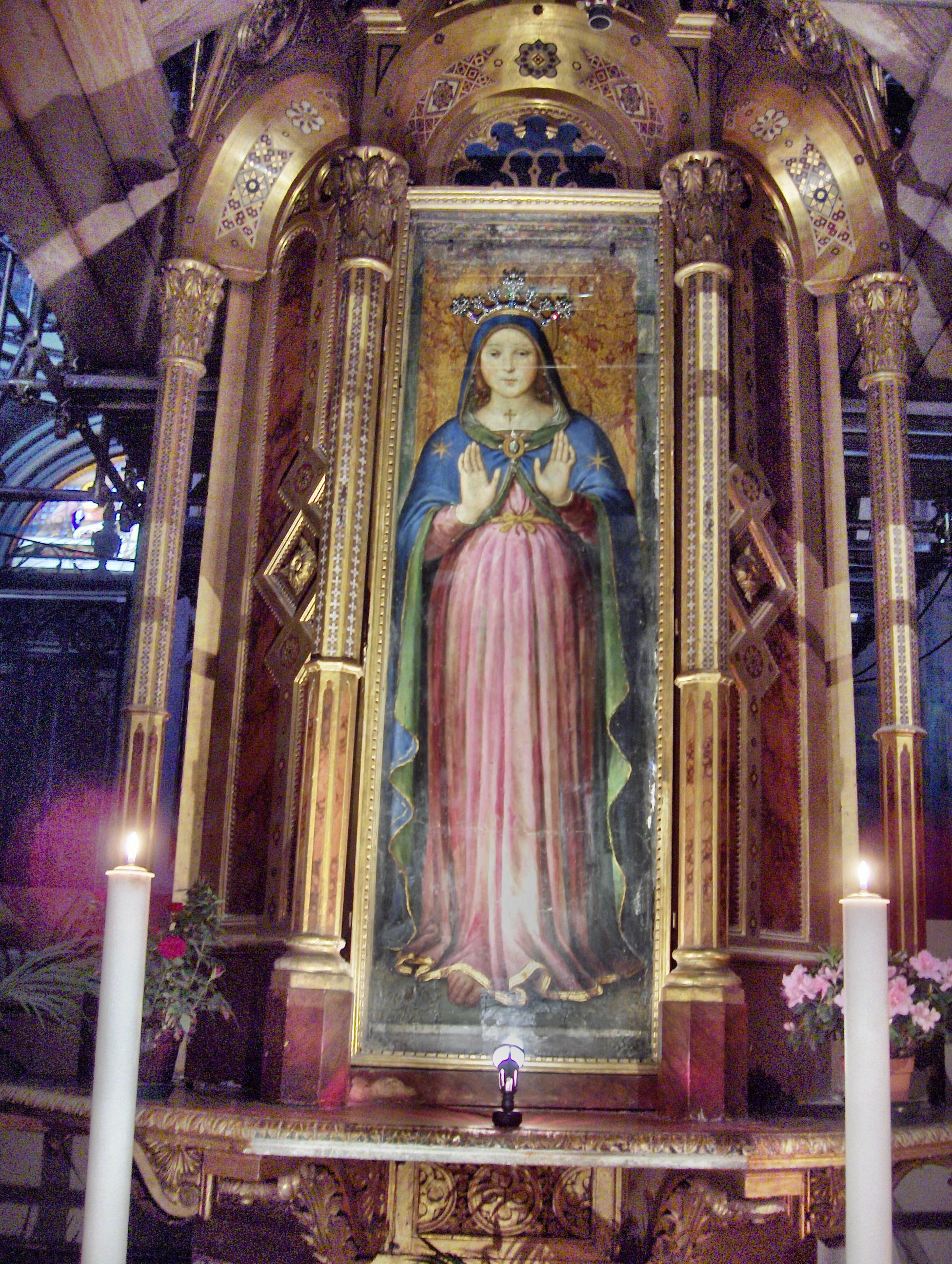 "Madonna delle grazie", painting attributed to Giannicola di Paolo. in the cathedral of San Lorenzo, Perugia, Italy